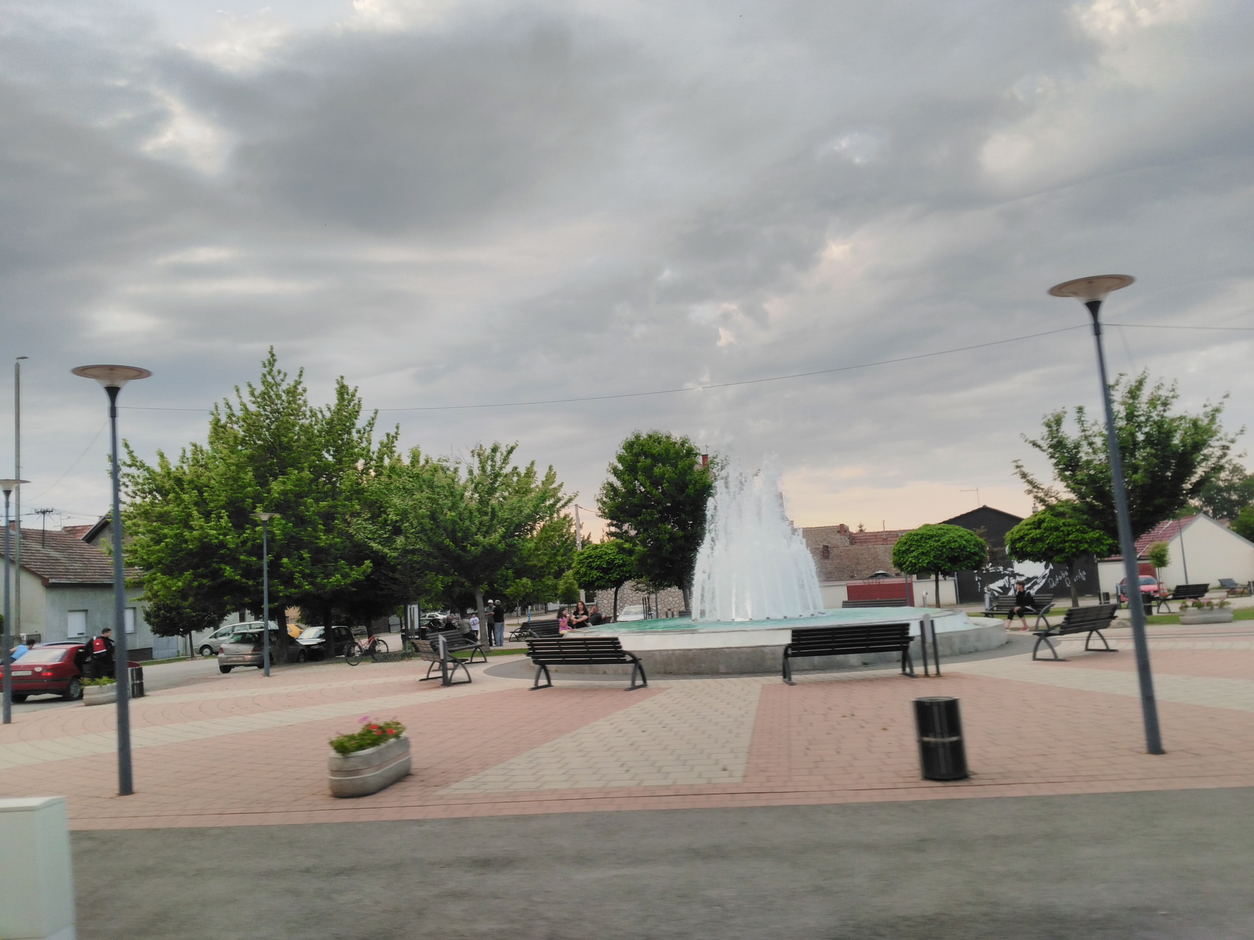 Central square in Nuštar.